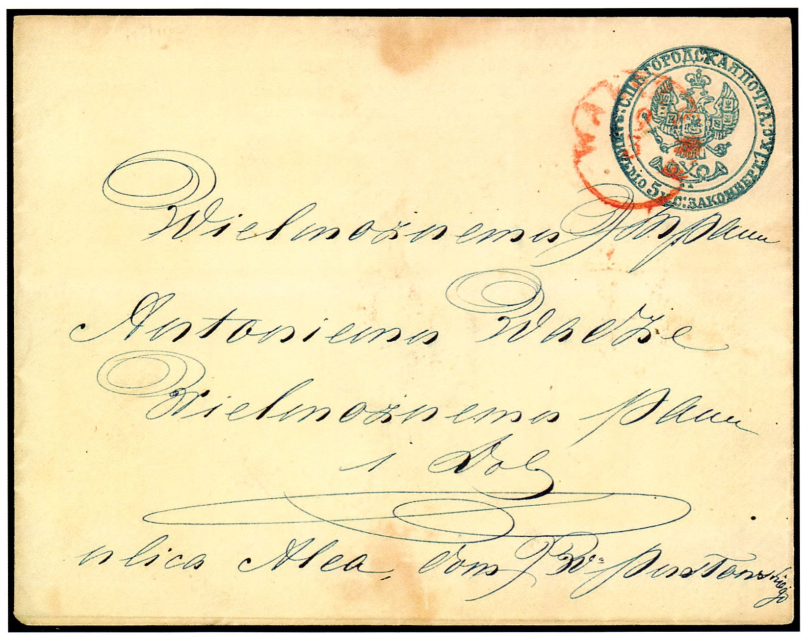 An 1858 Russian St. Petersburg local postal stationery envelope (medium size) used in Warsaw, Poland as a trial before the introduction of the first Polish postage stamps. Ex the Wladimir von Rachmanow collection.